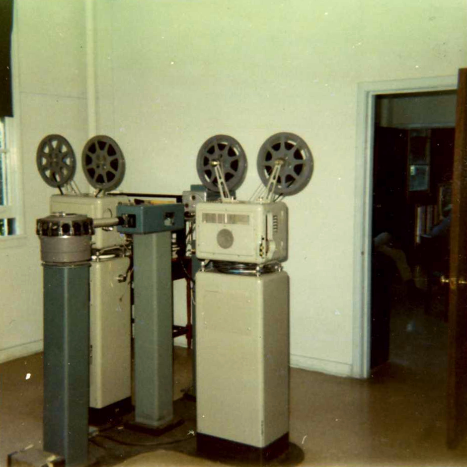 Film Chain Armed Forces Radio and TV AFRN - AFRTS WVCX/WVCQ Other information Armed Forces Radio and TV AFRN - AFRTS